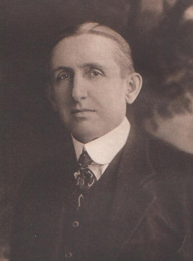 Arthur B. Williams, US Representative from Michigan